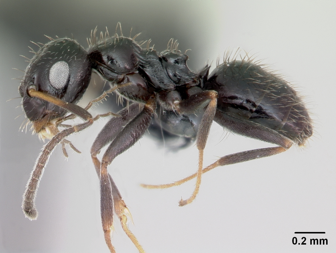 Profile view of ant Lepisiota canescens specimen casent0082616.